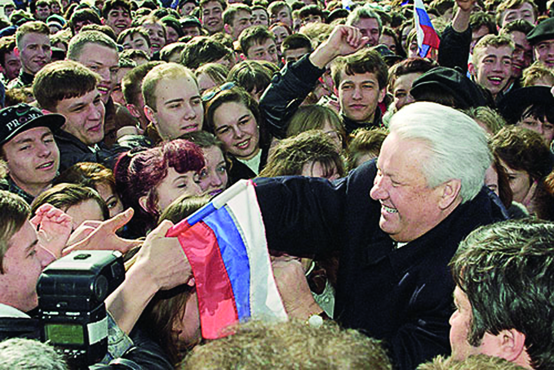 BELGOGRAD REGION. Trip to the Belgograd region.